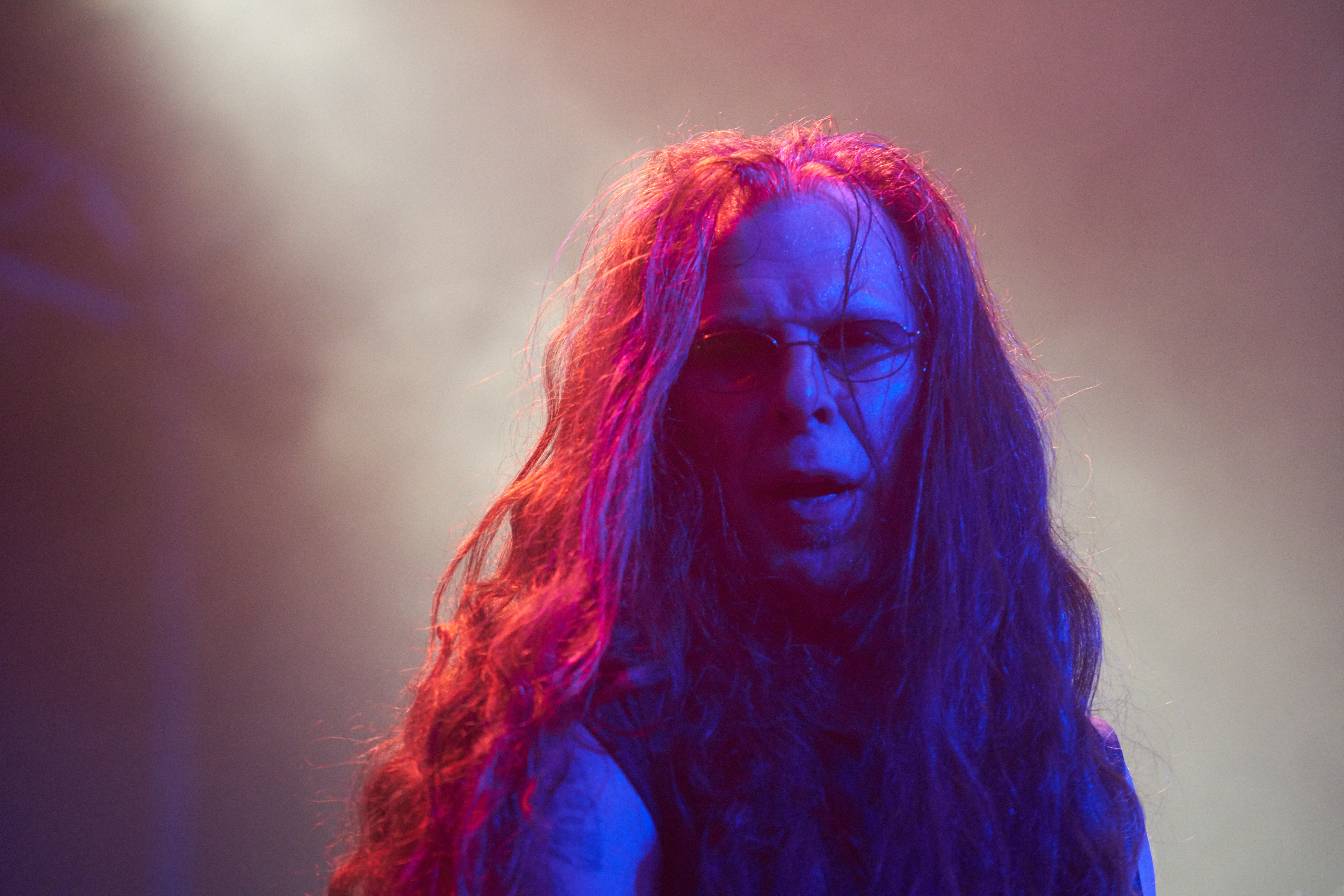 Pentagram at Hammer of Doom Festival, Würzburg, Posthalle, 20.11.2015 Festivalsommer This photo was created with the support of donations to Wikimedia Deutschland in the context of the CPB project "Festival Summer". Personality rights warning Although this work is freely licensed or in the public domain, the person(s) shown may have rights that legally restrict certain re-uses unless those depicted consent to such uses. In these cases, a model release or other evidence of consent could protect you from infringement claims.